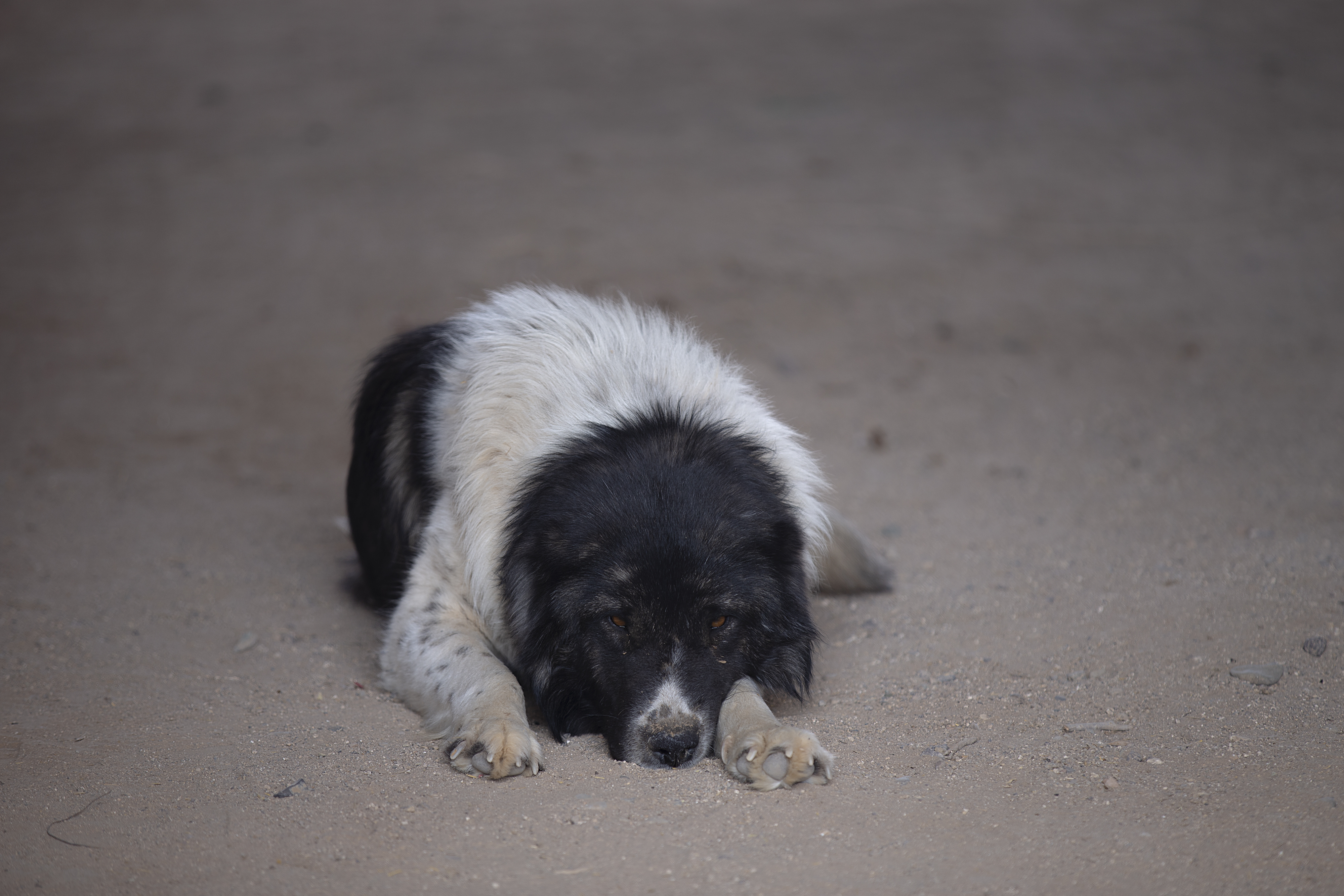 Animals are multicellular eukaryotic organisms that form the biological kingdom Animalia.